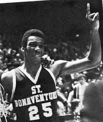 Professional basketball player Essie Hollis during his college career at St. Bonaventure University.